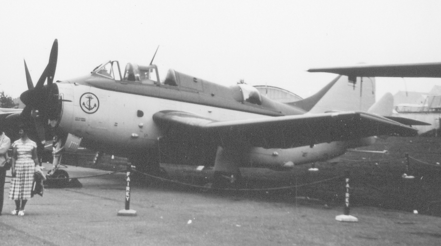 Fairey Gannet AS.4 UA+115 for West German Navy at the 1958 SBAC Show, Farnborough